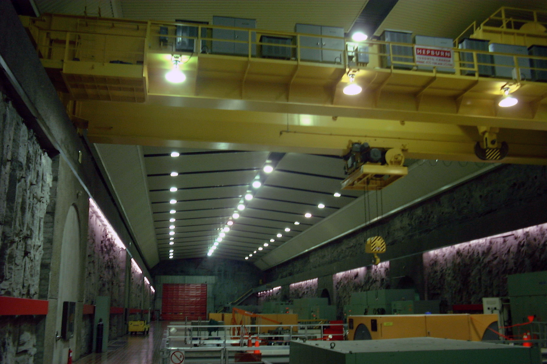 The bridge crane installed at the Robert-Bourassa hydroelectric generating station.